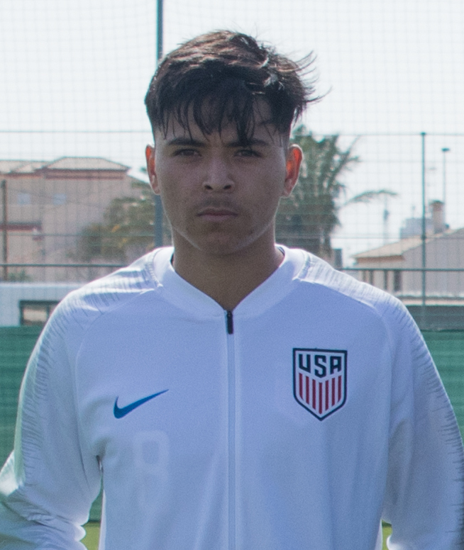 USA U20 v France U20, 22 March 2019